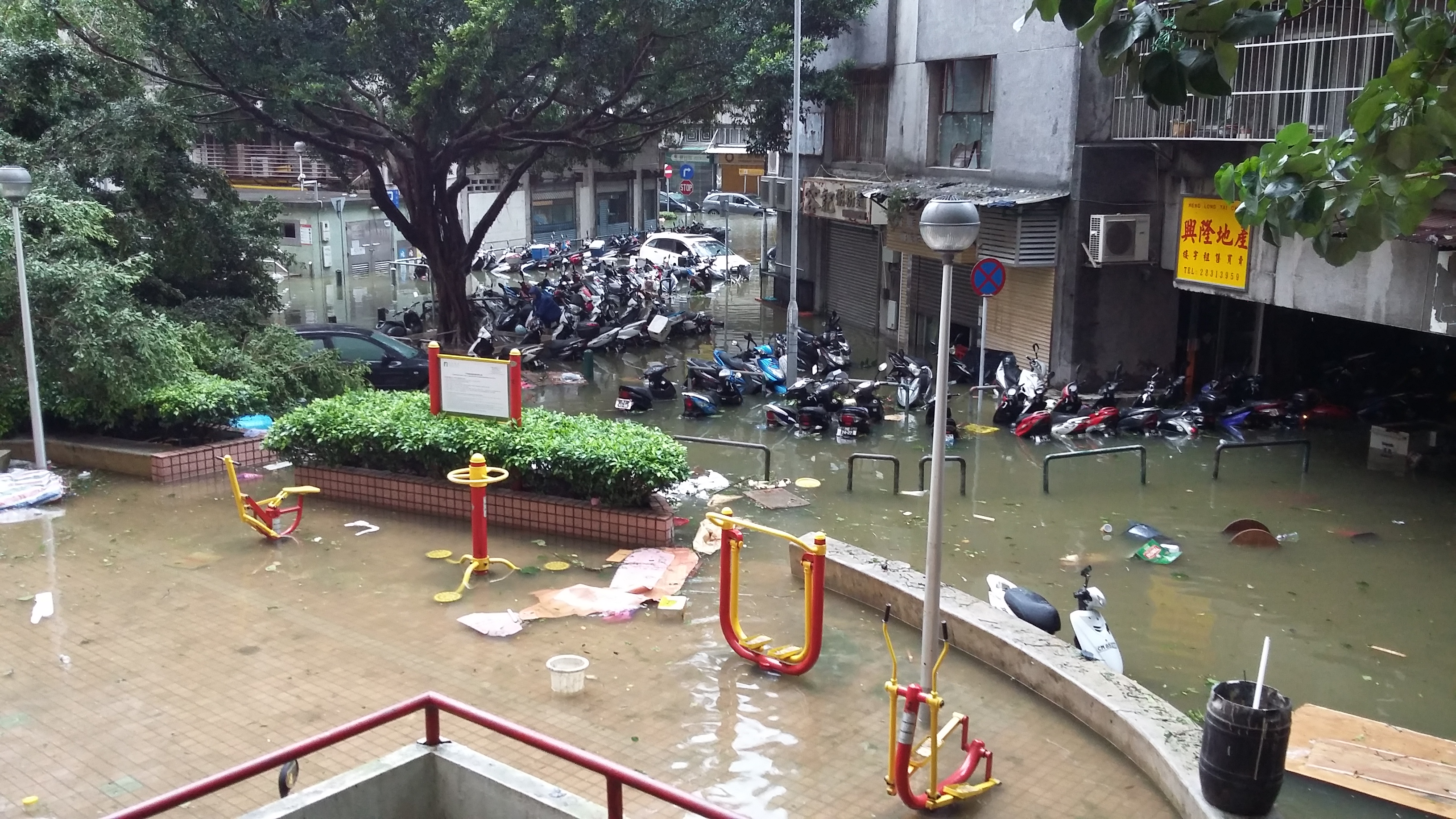 During the storm, at Freguesia de Nossa Senhora de Fátima.